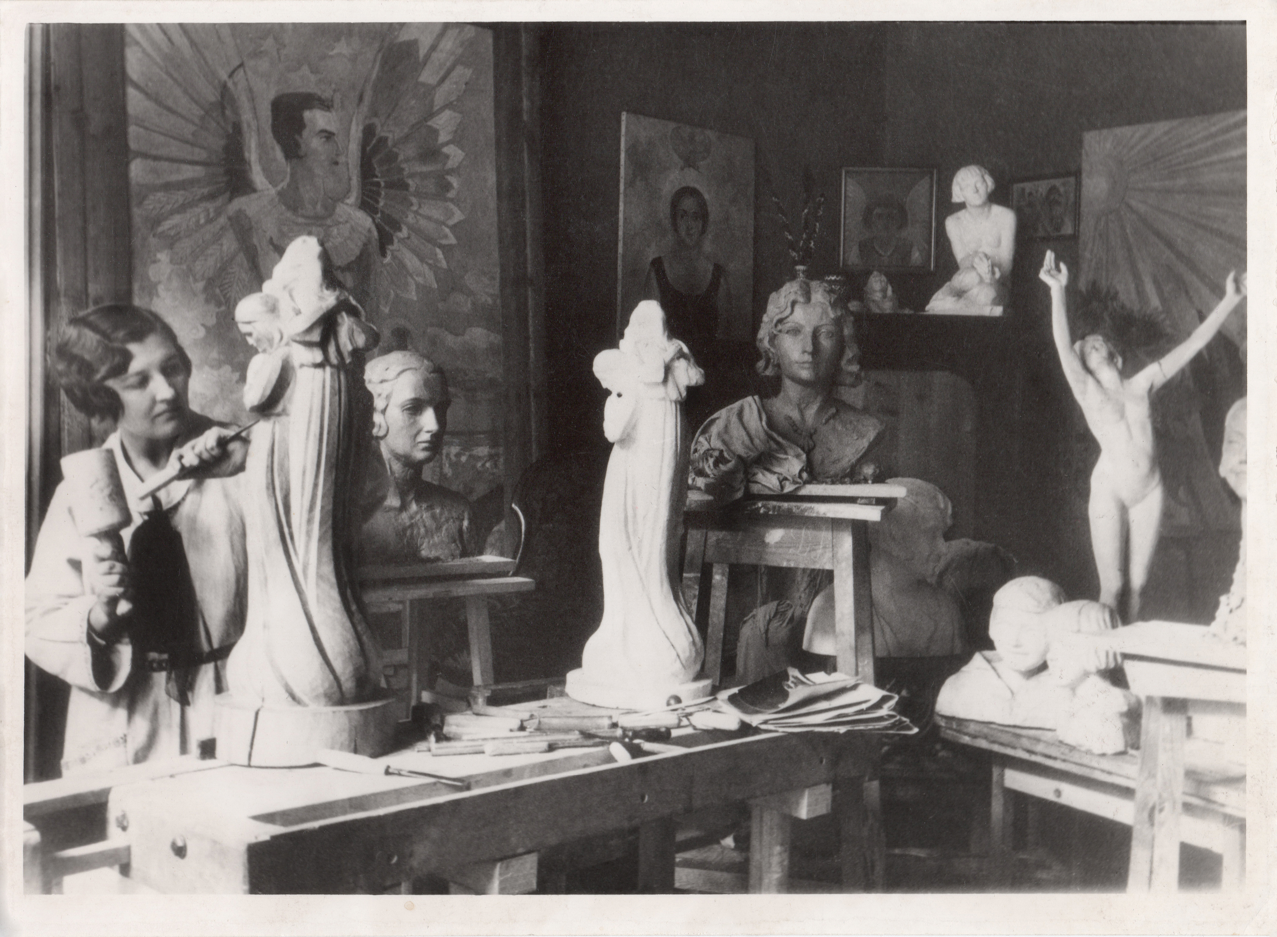 Zofia Baltarowicz-Dzielińska in her studio at 3 Kurkowa Street in Lwow